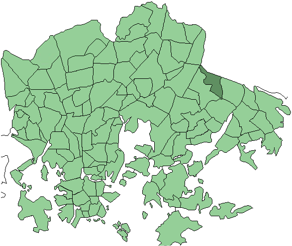 Districts of Helsinki, Vesala district highlighted (in Finnish: Vesalan peruspiiri korostettuna)